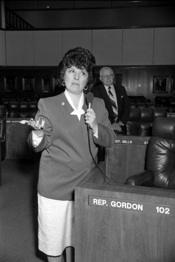 Representative Elaine Gordon speaks to the House - Tallahassee, Florida.